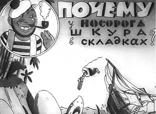 Shot of cartoon "Почему у носорога шкура в складках?" (USSR)